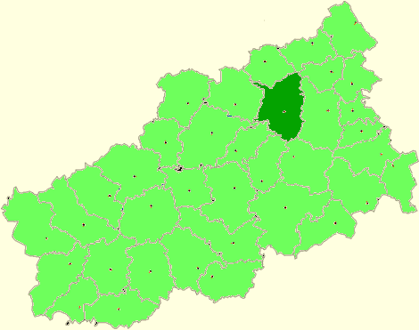 Tver Oblast map by Al Silonov